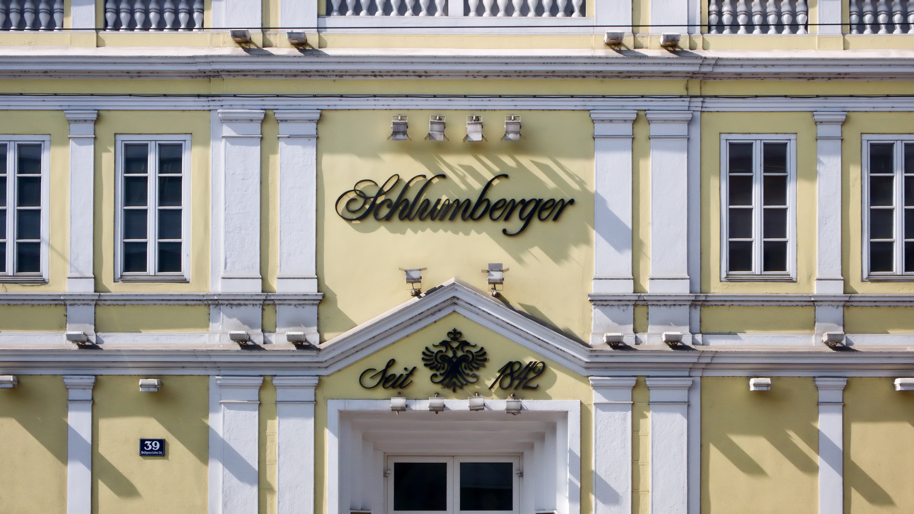 Schlumberger Wein- und Sektkellerei in Vienna Döbling